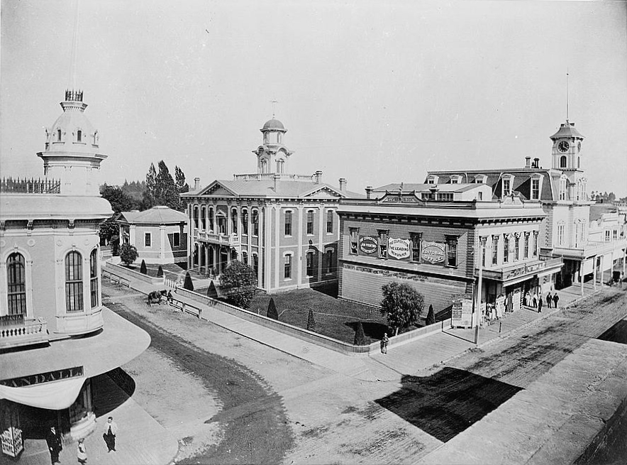 Santa Cruz, California Old Town Center, showing Octagon Building. HABS caption "Photographer unknown, early 1880s Old Town Center, showing the Octagonal Brick Hall of Records (built 1882) and the classical revival County Court House (built 1894)"